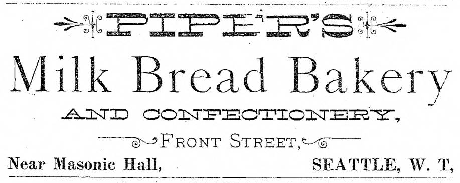 Advertisement for A. W. Piper's bakery. Seattle city and King County directory ... comprising an alphabetically arranged list of business firms, farmers and private citizens - a classified list of all trades, professions, and pursuits - a miscellaneous directory, city and county officers, terms of court, public and private schools, churches, banks, incorporated institutions, secret and benevolent societies, etc., etc.